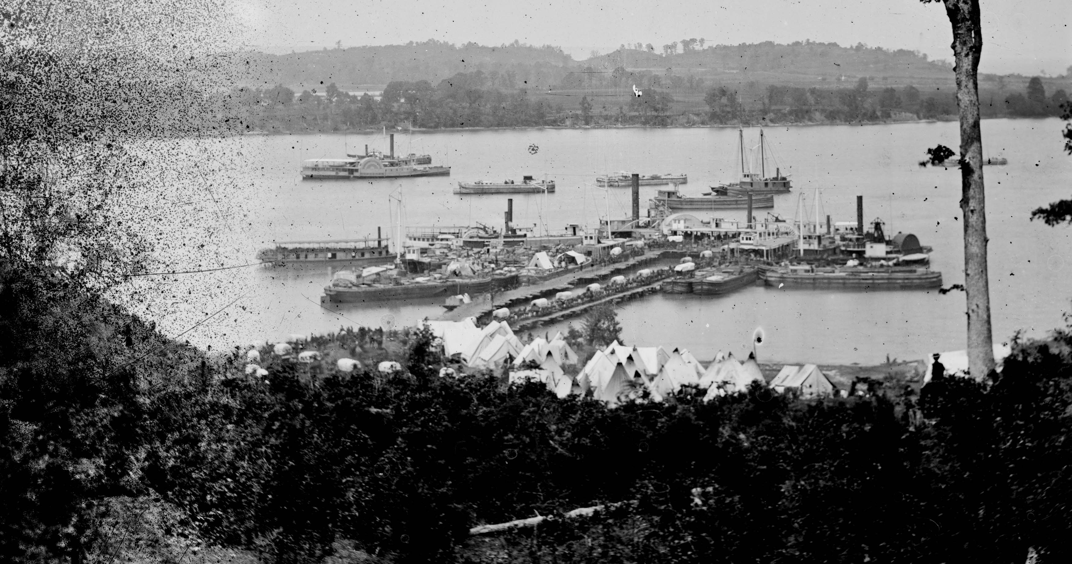 A view of the wharf built during the Civil War at Belle Plains with Crow's Nest in the background, Library of Congress Prints and Photographs Division